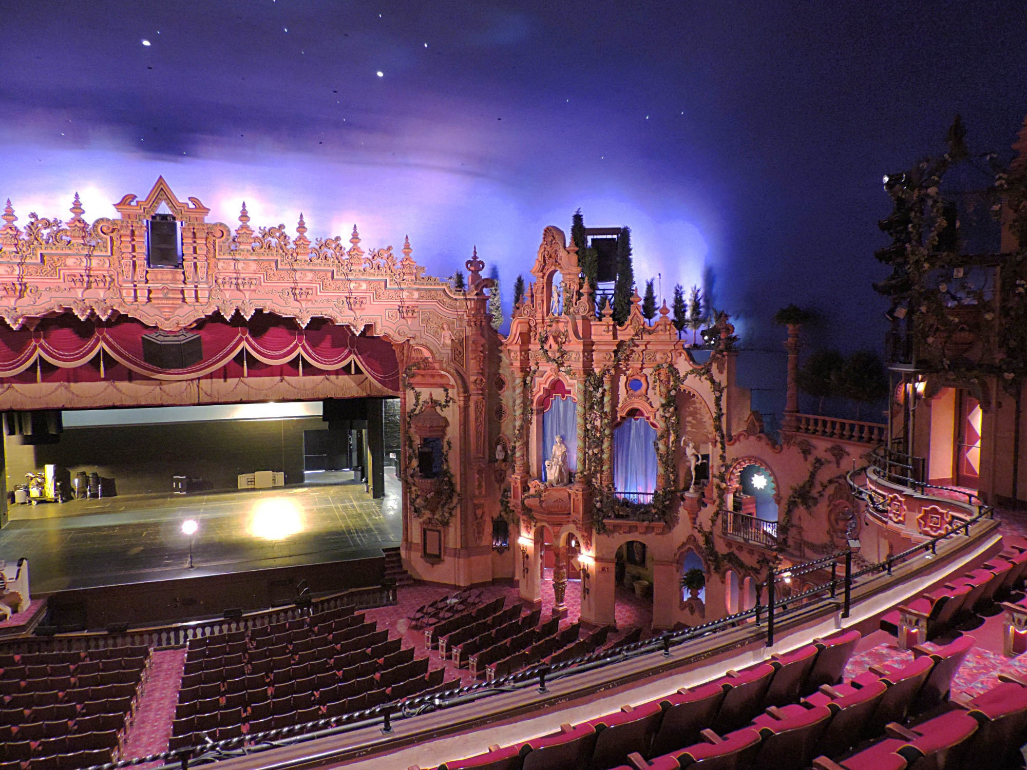 Akron Civic Theatre, house view from balcony. This image show the stars and projected clouds. Photography by Nat Napoletano, May 2013